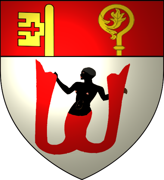 Coat of arms of Mouila - Gabon - The mermaid recalls a local legend of a female sea monster. Bishop's pastoral staff is the symbol of the bishop's seat and key symbolises the province of N'Gounié gouvernor's administration.